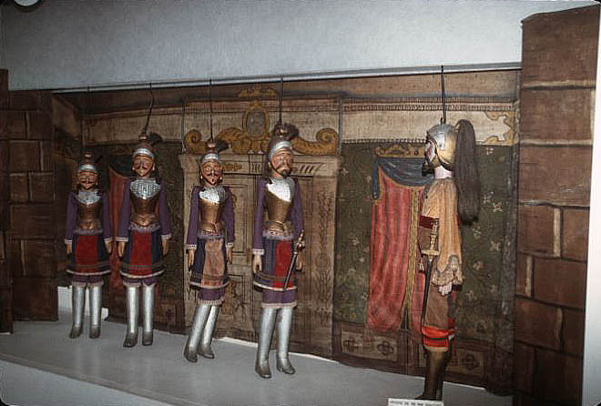 MUSEUM HAS DISPLAYS ON RURAL WALLOON LIFE PLUS DISPLAYS OF PUPPETS WHICH WERE DEVELOPED IN THIS AREA